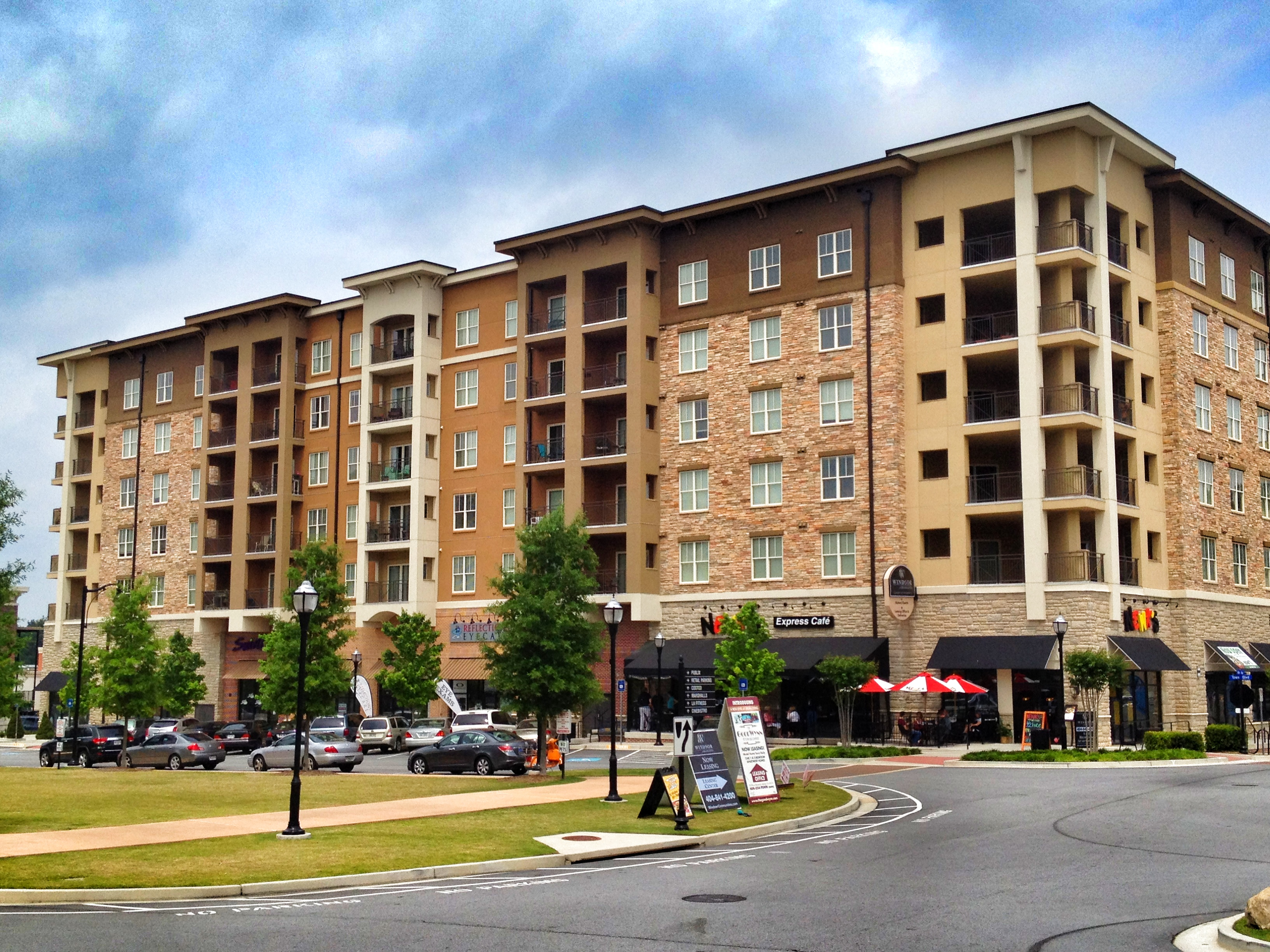 Town Brookhaven, Brookhaven, Metro Atlanta, Georgia